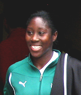 Anita Asante of the St.Louis Athletica FC.